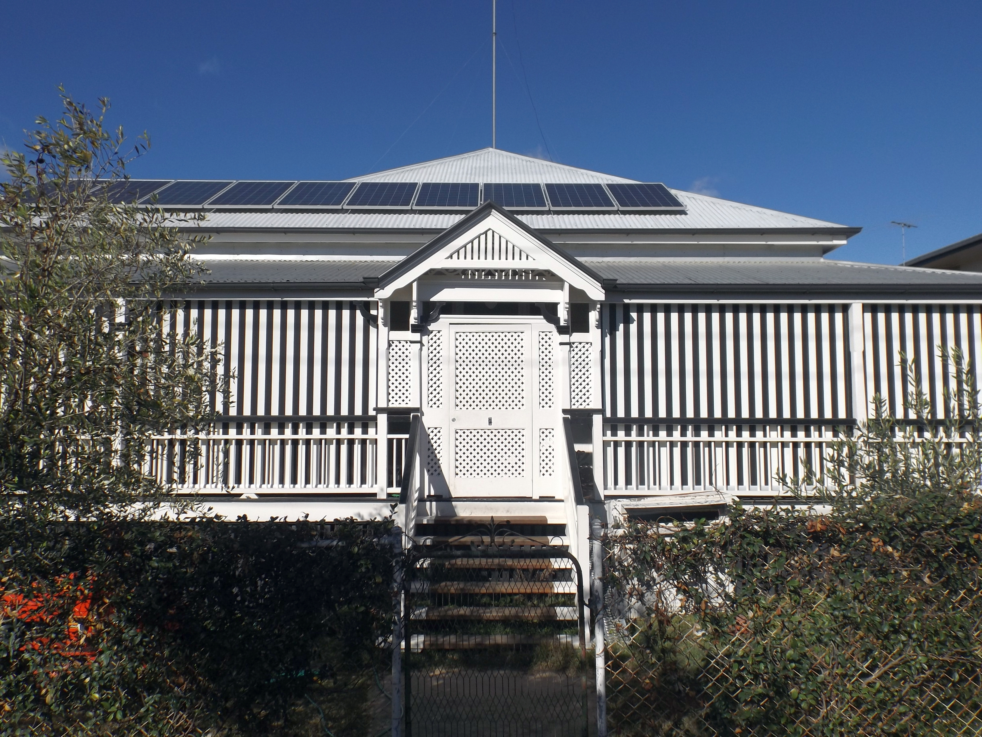 Photo of the entrance to Killila at Lutwyche, Brisbane, Queensland, Australia.